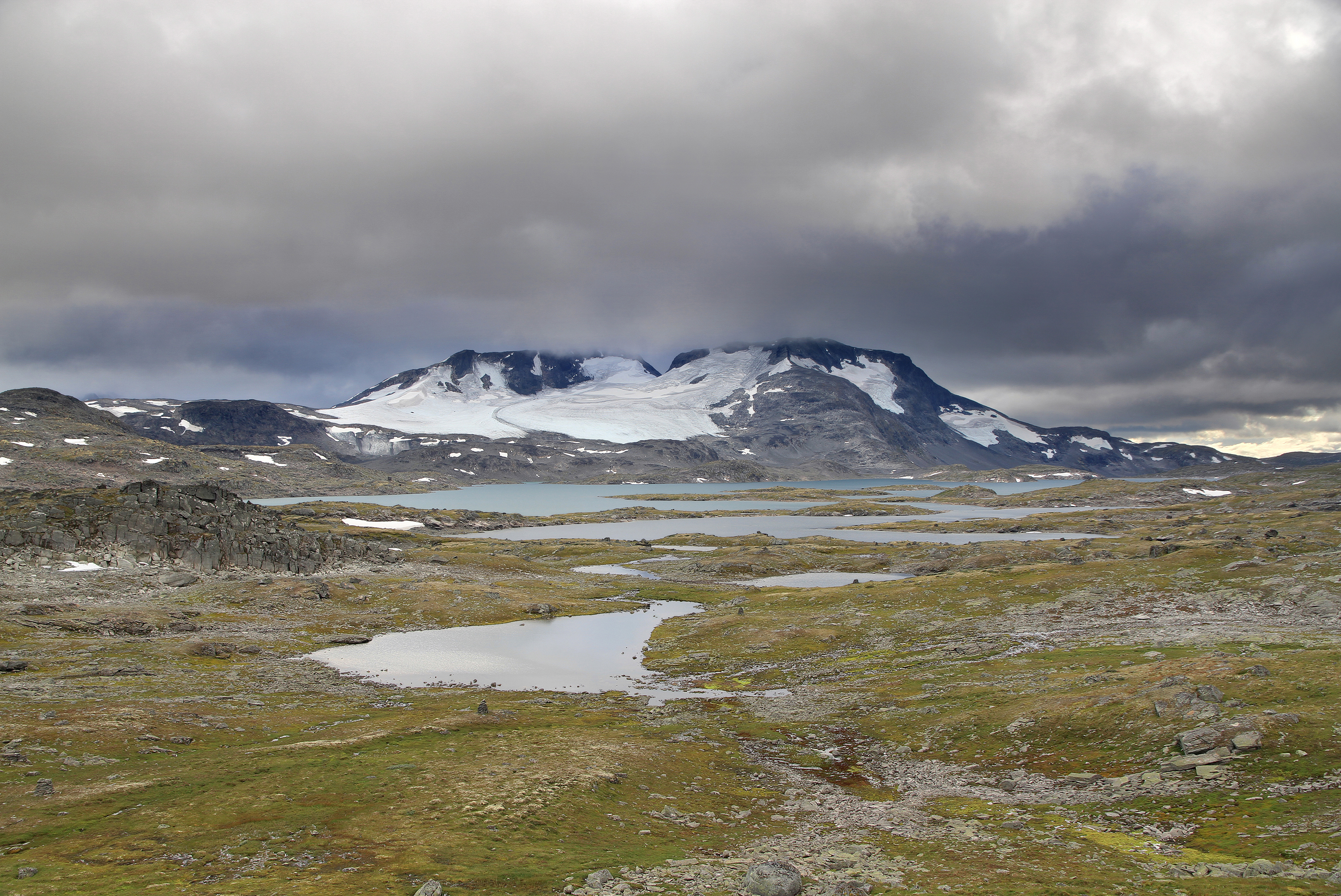 Fannaråki mountains and Fannaråkbreen (glacier) near Sognefjellet as seen from the northeast, municipality of Lom, Oppland, Norway in 2011 August. However, the glacier and mountain massif are located in the municipality of Luster, county of Sogn og Fjordane.